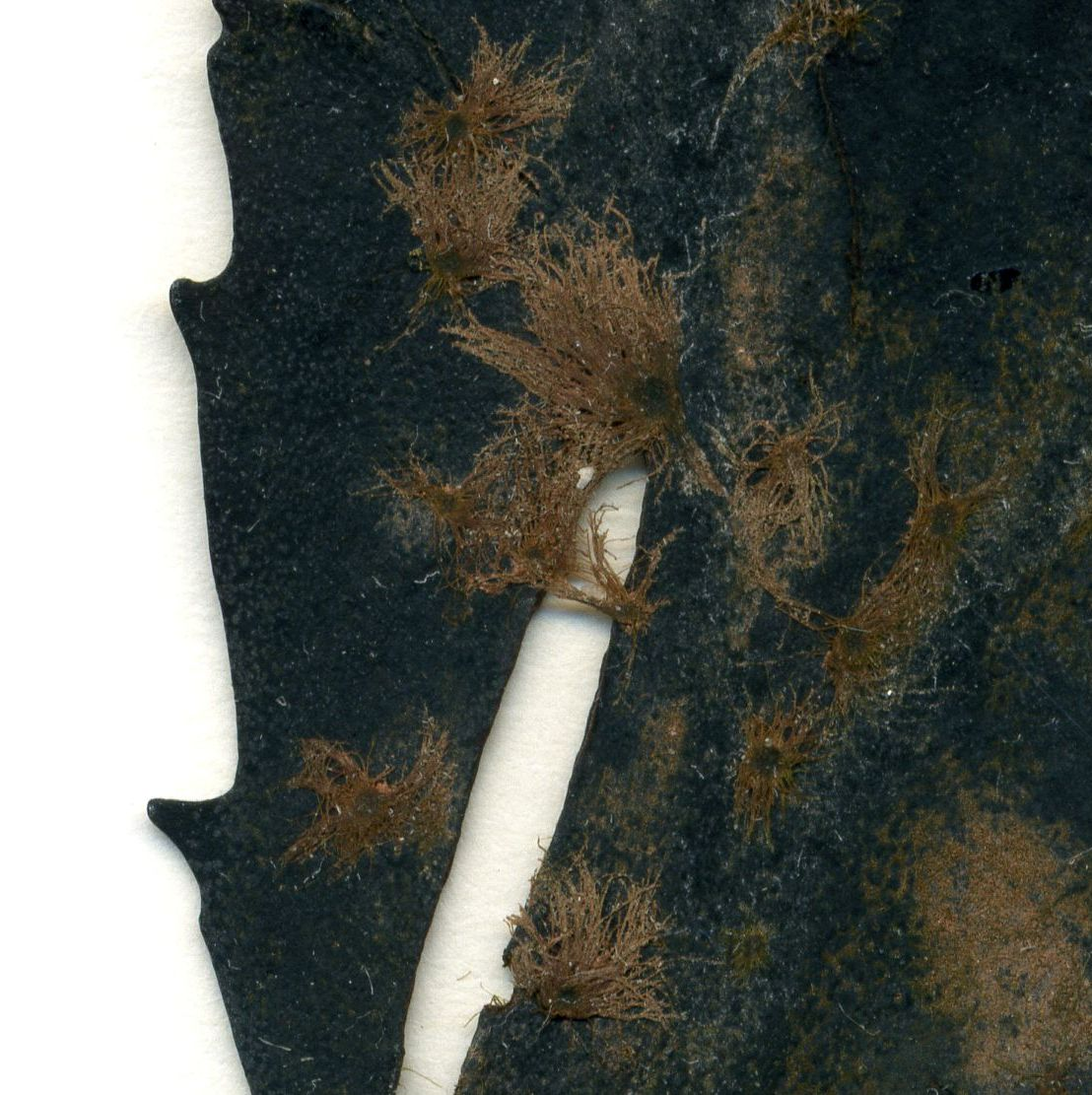 Elachista fucicola epiphytic on Fucus serratus, herbarium sheet. Collected 1987-09-11, Heligoland (Germany).